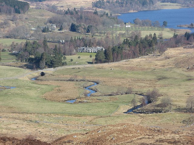 Rannoch Barracks, and the Allt Chomraidh View towards Loch Rannoch from the slopes of Meall Chomraidh. The meandering Allt Chomraidh passes Rannoch Barracks, the big house of the estate at Bridge of Gaur.